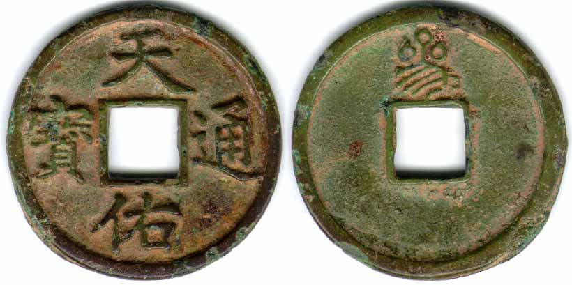 YUAN DYNASTY 1280 - 1368 AD H 19 . 1b Da Chao tong bao SILVER Cash Genghis Khan? Rev: Incuse mark NW 21.3 mm, 3.453 g FD1696 G H 19 . 46 Da Yuan tong bao 10 Cash Mongol Script Var: Closed-mouth Da 42.6 mm, 24.014 g FD1733, S1099, HG888/3 VF, green H 19 . 99 Zhi Zheng tong bao 2 Cash Rev: xin mao (1351) 29.8 mm, 5.961 g FD1791, HG908/5 EF/VF H 19 . 100 Zhi Zheng tong bao 2 Cash Rev: ren chen (1352) FD1792, HG908/6 EF H 19 . 109 Zhi Zheng tong bao 3? Cash Rev: Sam / San Var: Sm. chars., broad rim 35.0 mm, 9.958 g FD1803, S1110, HG911/5 AVF/AF, very crusty H 19 . 115 Zhi Zheng tong bao 10 Cash Rev: Shih above 44.2mm, 23.56gm FD 1808, S1111 VF H 19 . 137 Tian You tong bao (Rebel) 3 Cash San in Seal script above 33.9 mm, 9.264 g FD1841, HG925/1 VF H 19 . 142 Tian Ding tong bao (Rebel) Cash FD1833, S1122, HG928/1 EF .